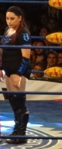 AAA Reina de Reinas Championship Match at Rey de Reyes (2013)